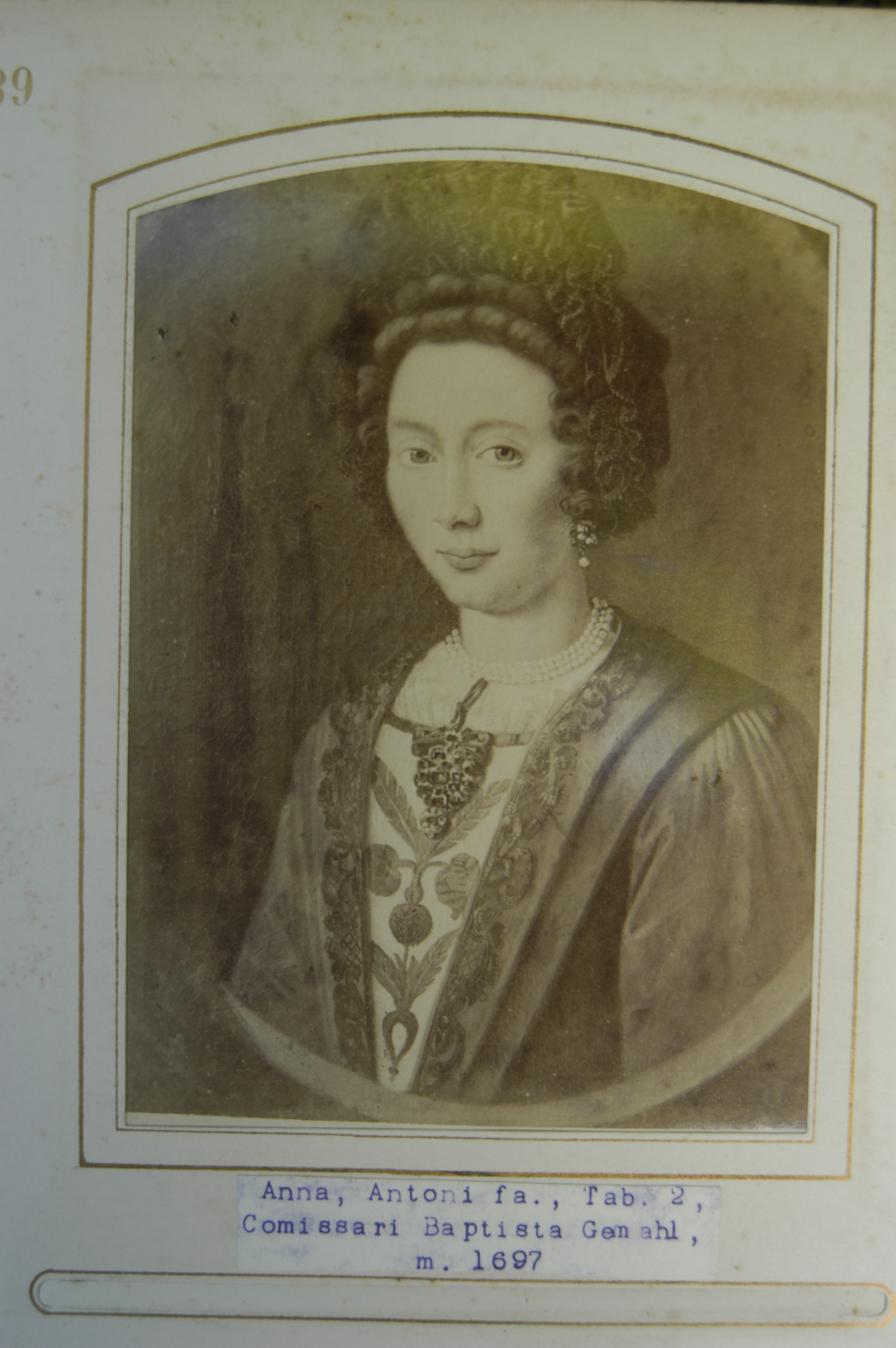 Photo (by me, R. de Salis, Rodolph (talk)) of a pre-1884 photo of a portrait of Anna à Salis-Samedan (d.1738), wife to Battista à Salis-Soglio (1654-1724). Other information sitter: Anna à Salis-Samedan (d.1738), wife to Battista à Salis-Soglio (1654-1724).